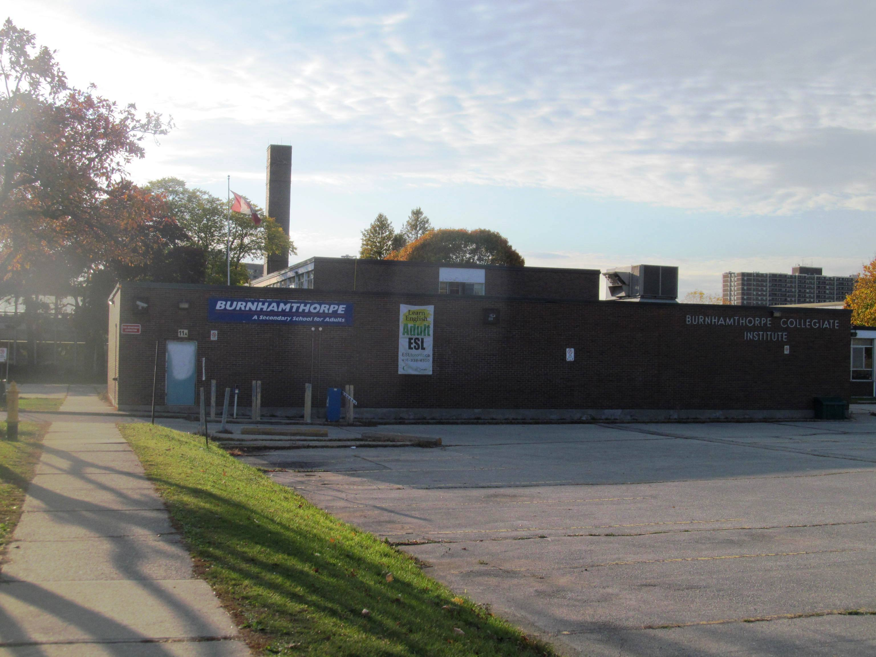 Burnhamthorpe Collegiate Institute in October 2015.